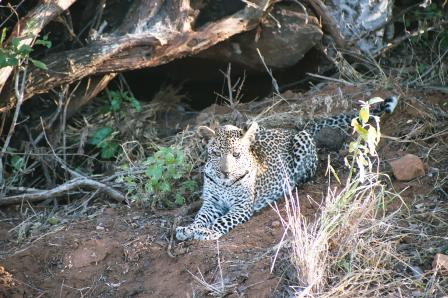 African Leopard